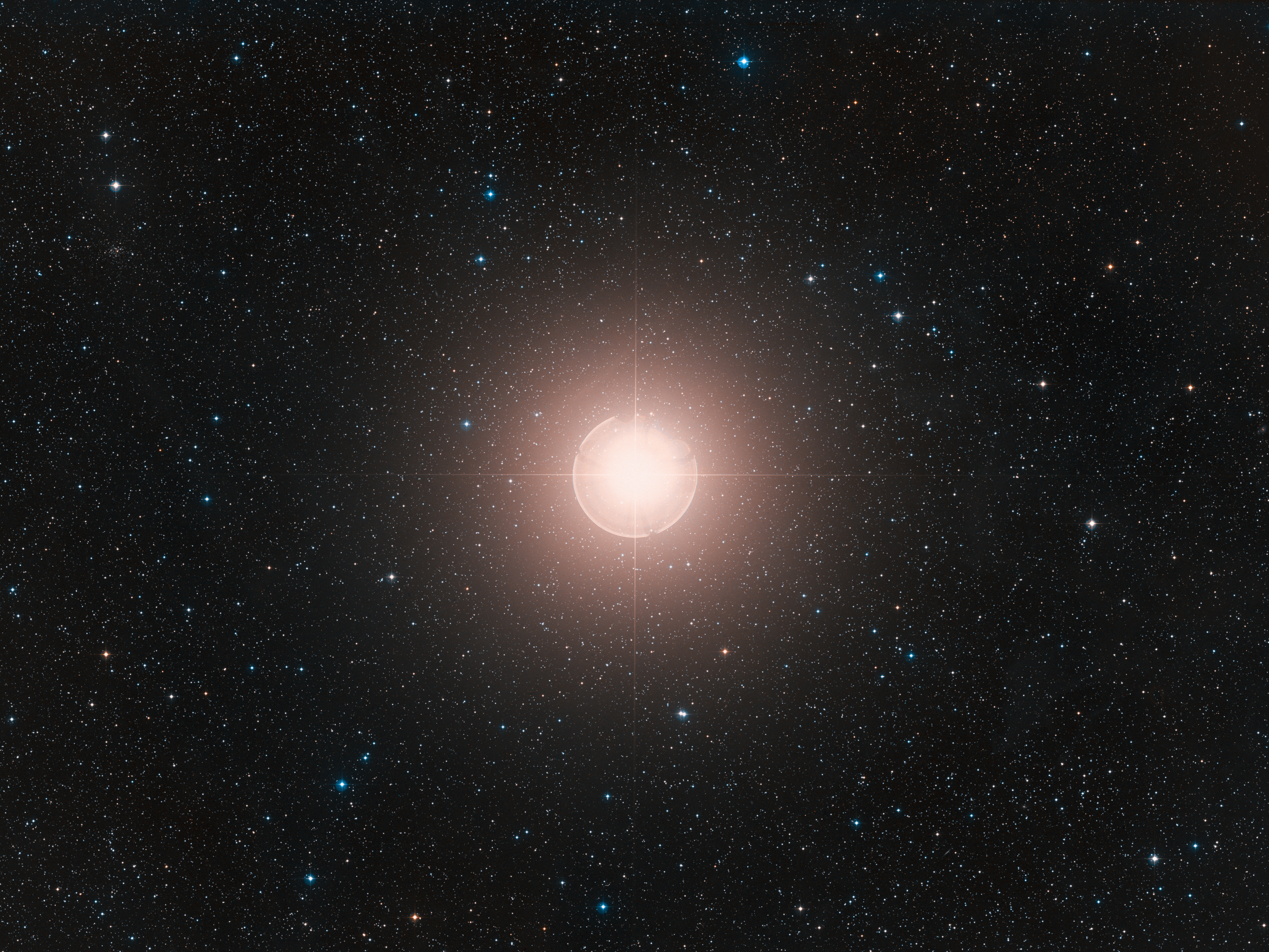 This image is a colour composite made from exposures from the Digitized Sky Survey 2 (DSS 2). The field of view is approximatelly 2.0 x 1.5 degrees.